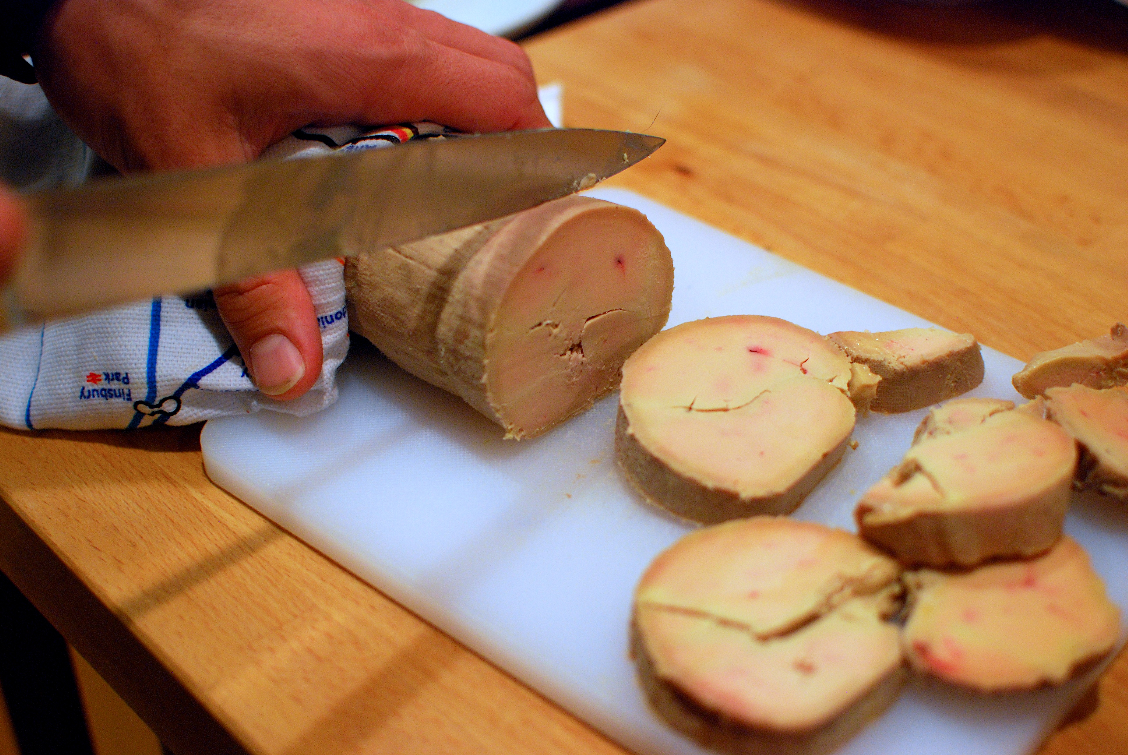 Cutting the torchon.